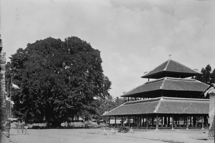 Traditional vernacular pavilion (mosque ?), with Banyan tree (Ficus sp.) - in Bali, Indonesia - circa 1900-1925.